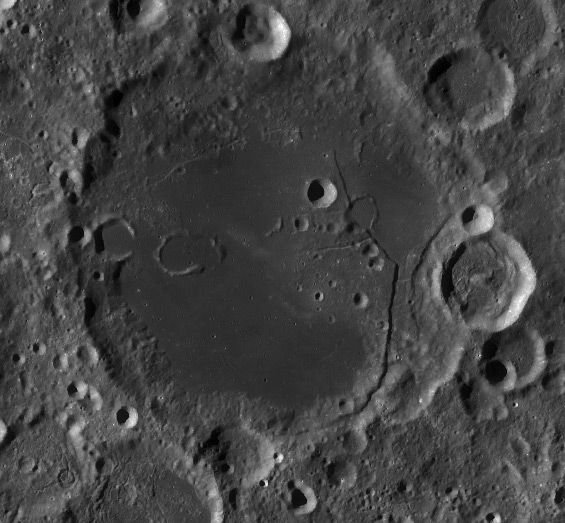 Jules Verne LROC image